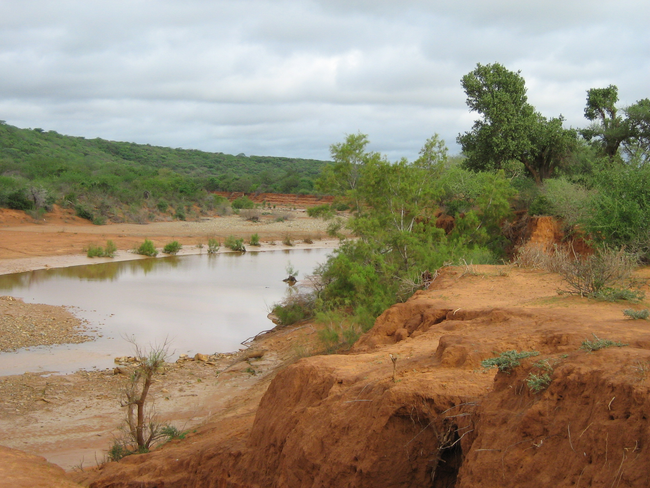 Jerdaani Gorge, West of Bardera, Gedo, Somalia